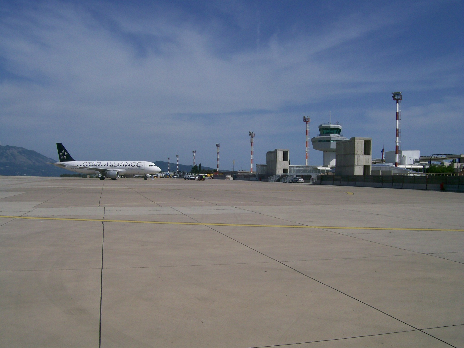 Dubrovnik Airport